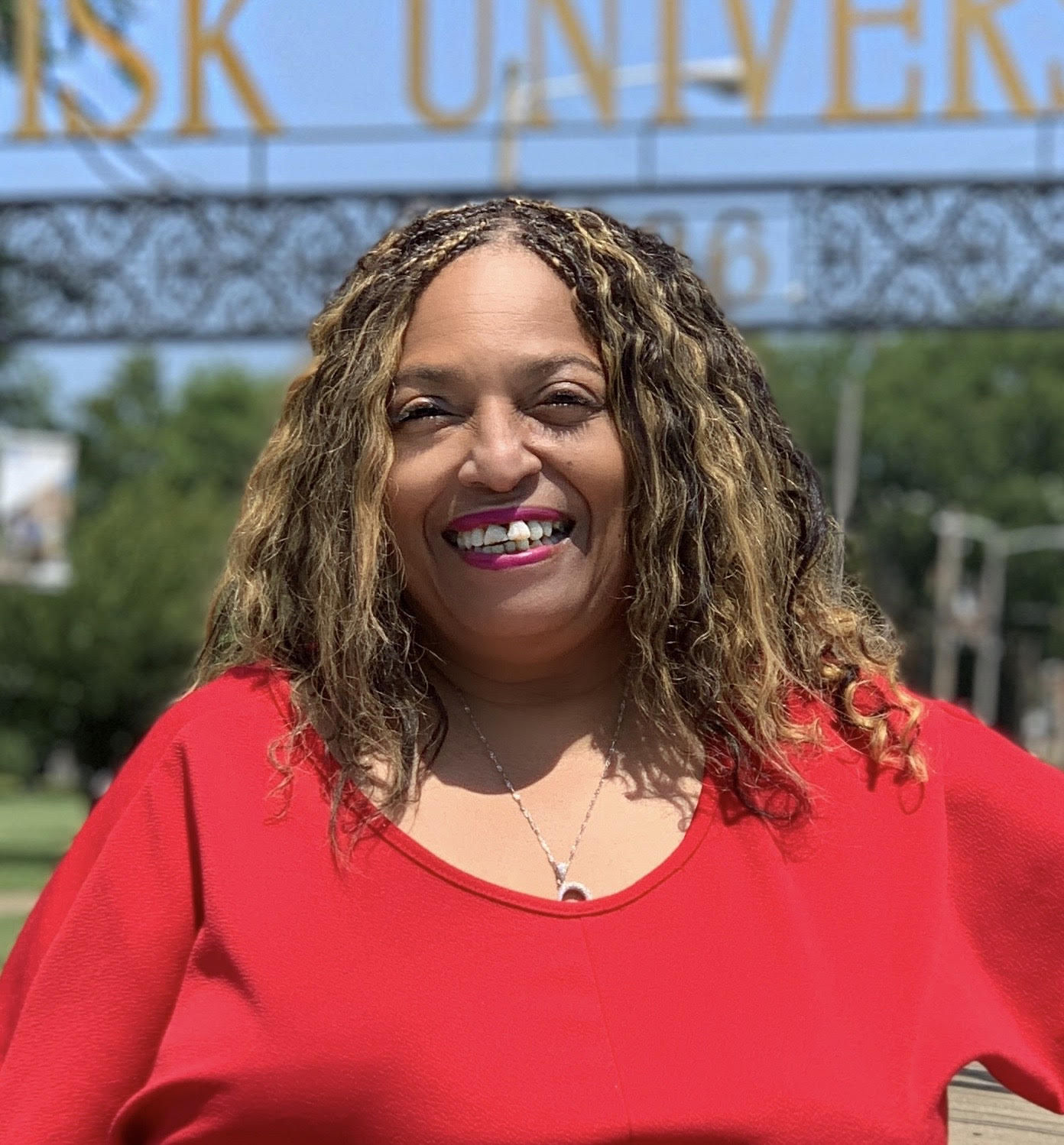 Photo of Flo Anthony